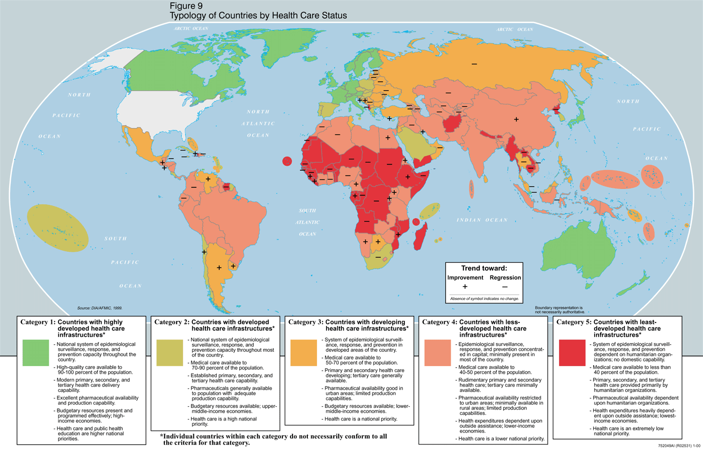 Typology of worldwide healthcare